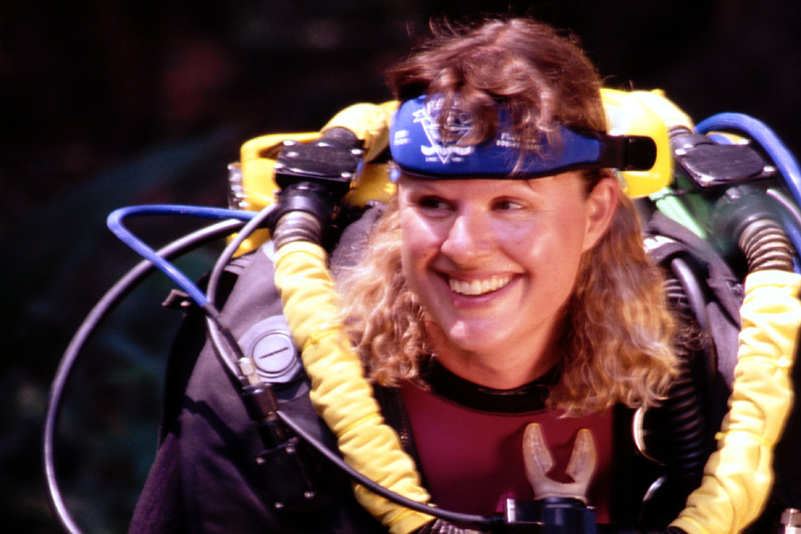 Jill Heinerth, pioneering woman cave diver and explorer.